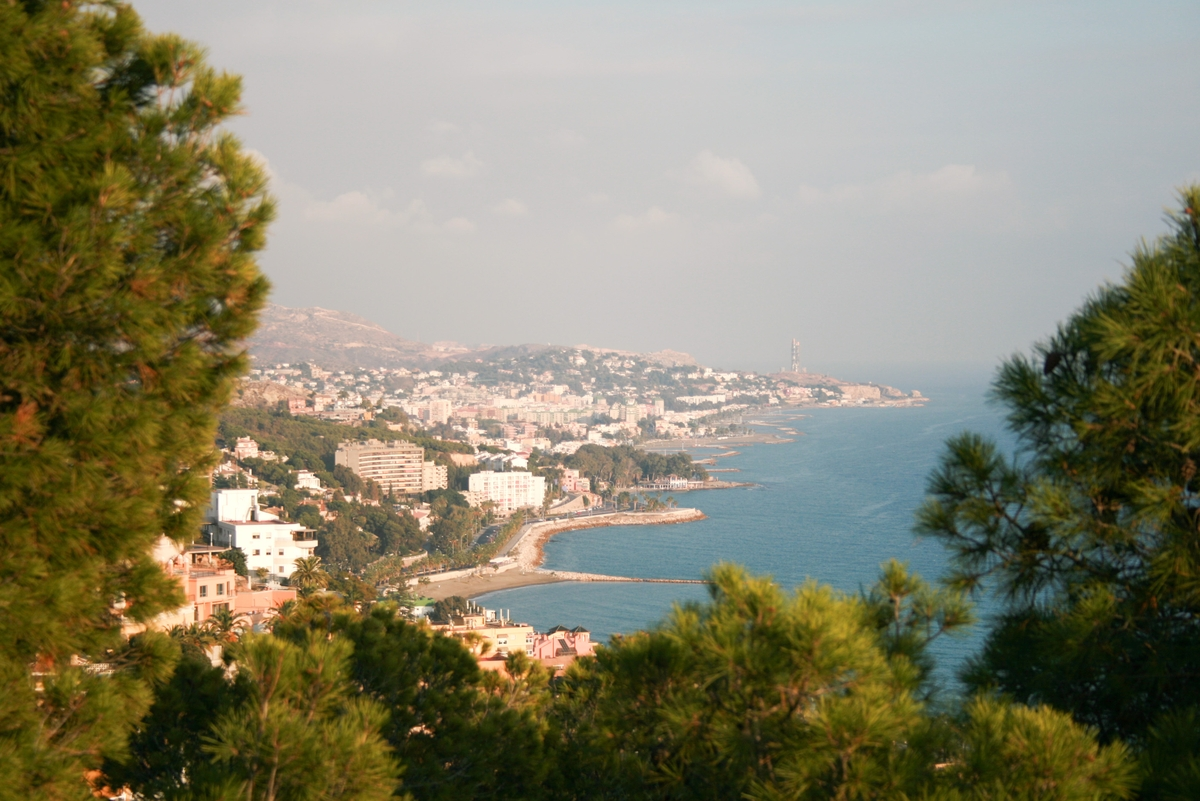 Málaga east district